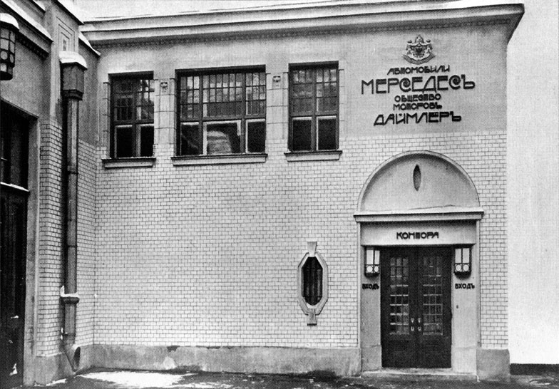 Mercedes garage, Moscow, 1907 (signs says: Mercedes automobiles. Daimler Motors Society). Гараж «Мерседес», Неглинный проезд